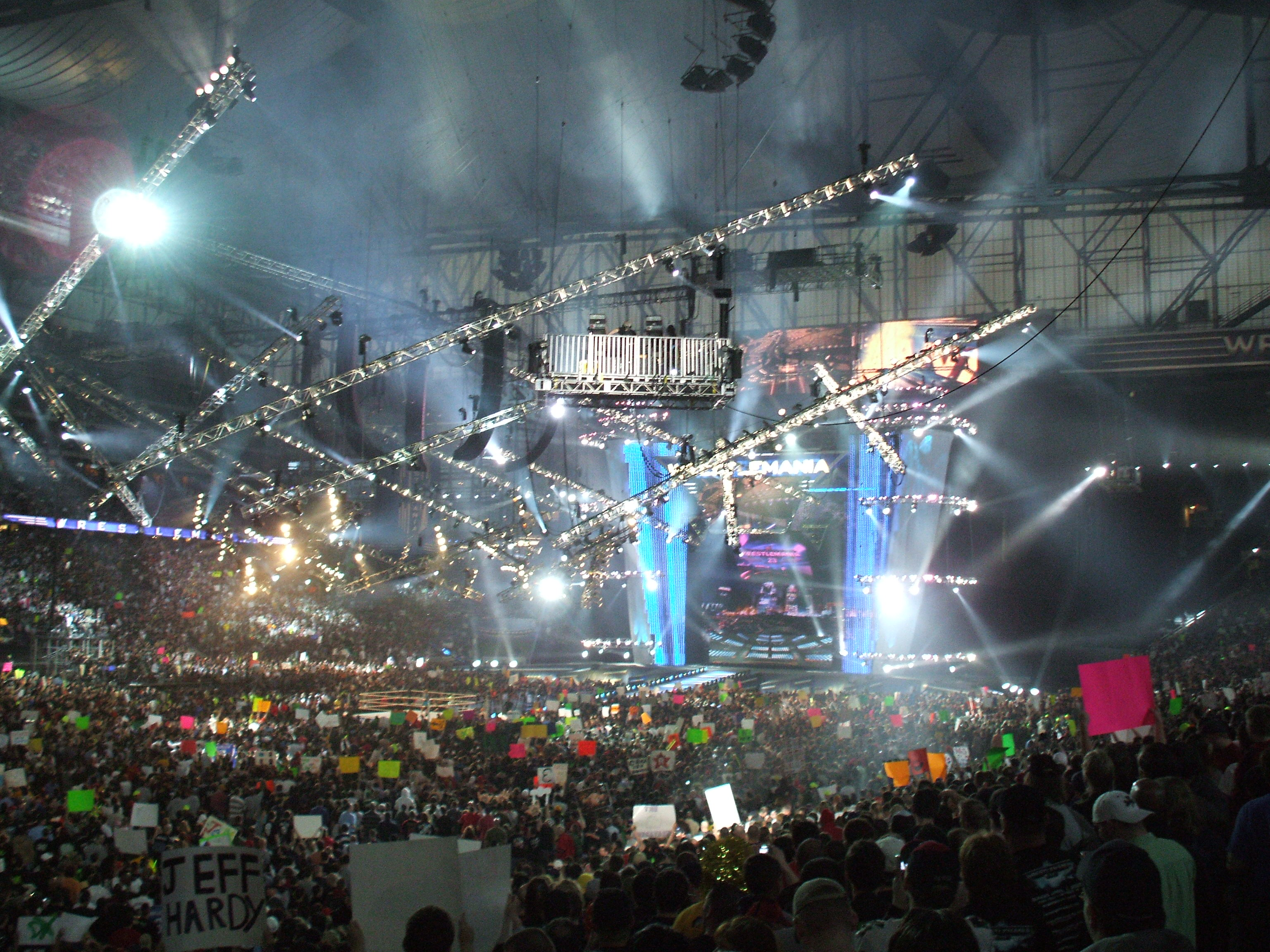 J. McCabe(stealthpirate07), Own Work